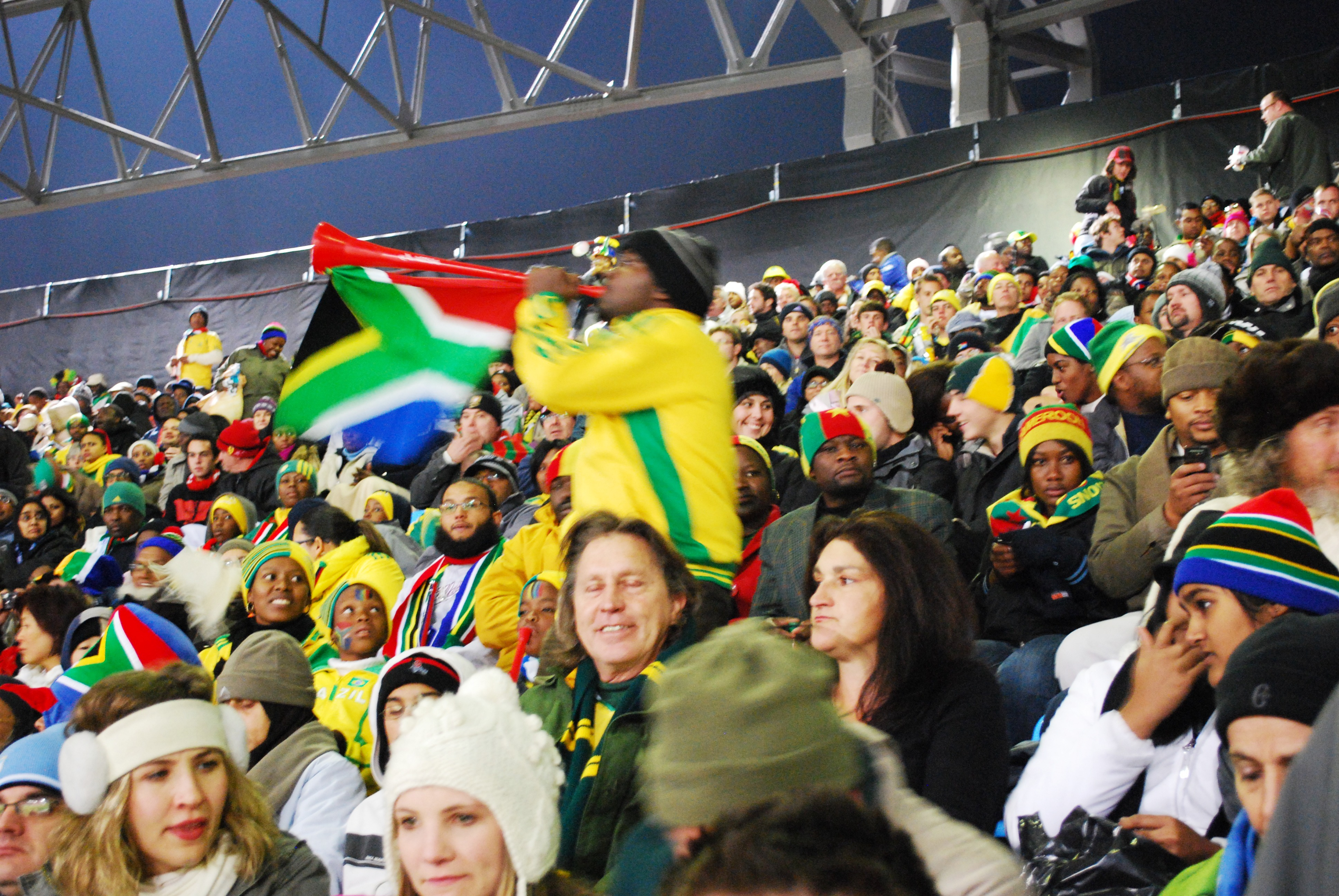 A South African fan plays his vuvuzela at the Denmark vs. Cameroon World Cup match at Loftus Versfeld Stadium in Pretoria, South Africa, on June 19, 2010. [State Department photo/ Public Domain]